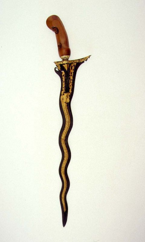 Ceremonial kris with sheath